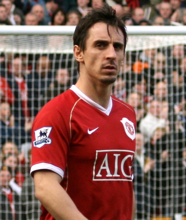 Gary Neville playing for Manchester United F.C.